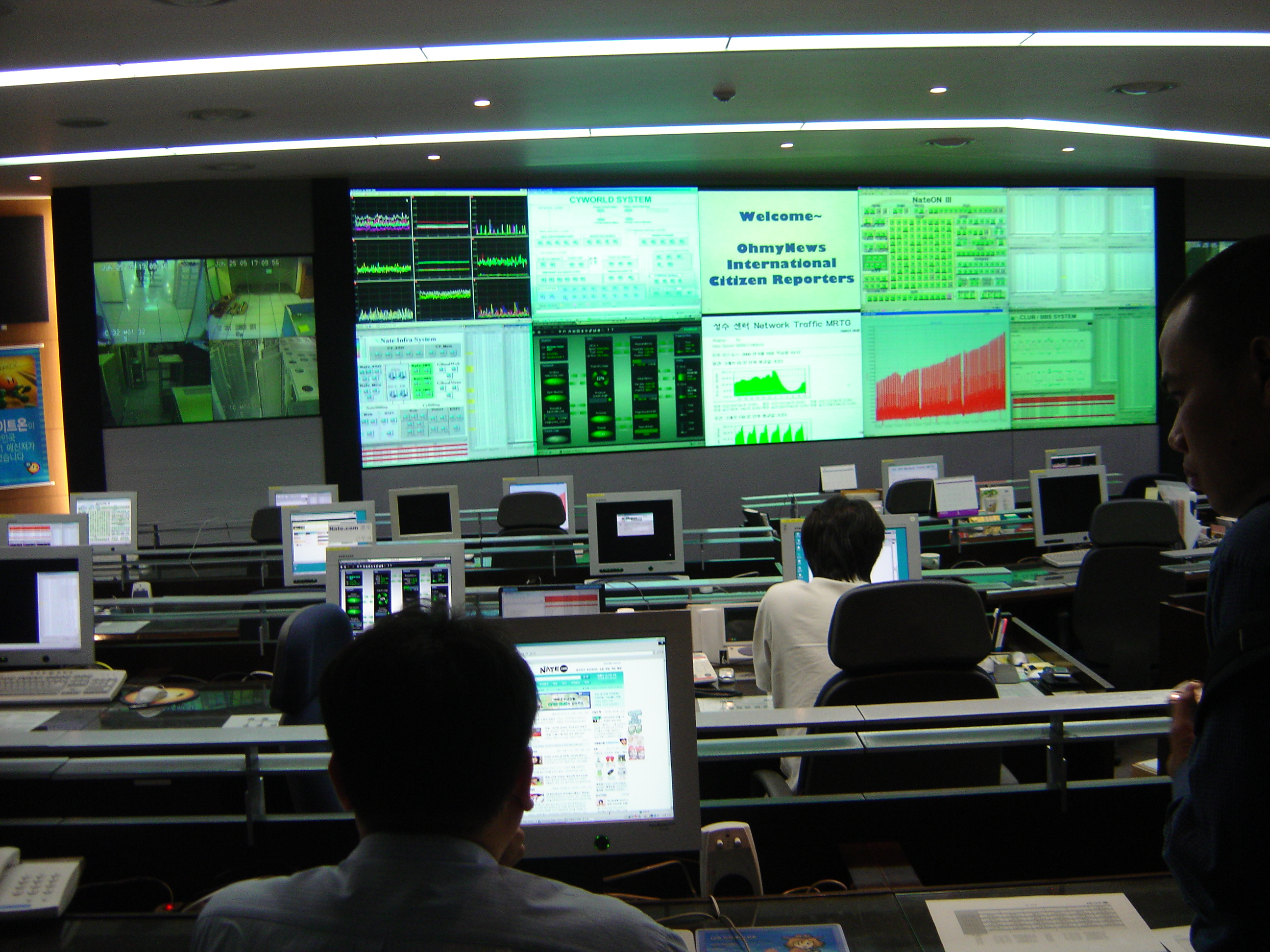 Control room of the Cyworld portal, operated by SK Communications, in Seoul, Korea.